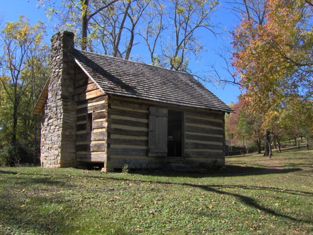 Schoolhouse where future Tennessee Governor and Texas Revolutionary Sam Houston taught in the early 1800s. The schoolhouse is located just of US-411 in Maryville, Tennessee, and is open the public.